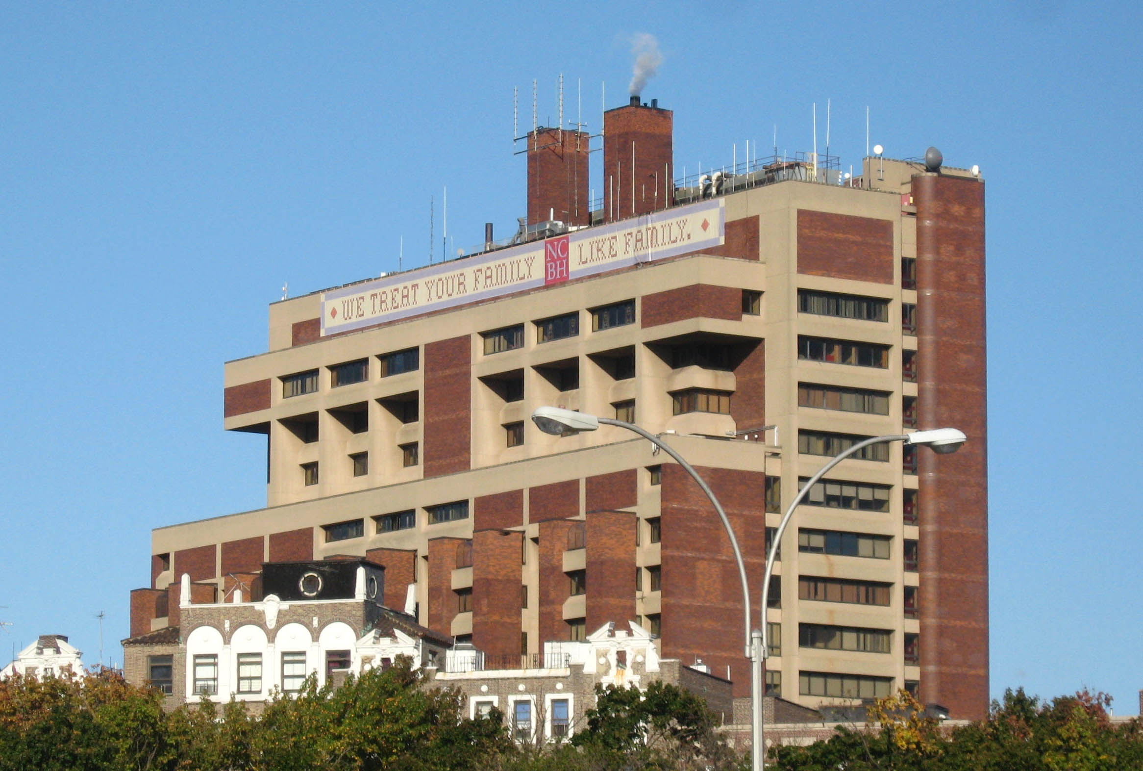 Looking northeast from Grand Concourse near 207th Street, at North Central Bronx Hospital in northern Norwood, on a sunny afternoon.